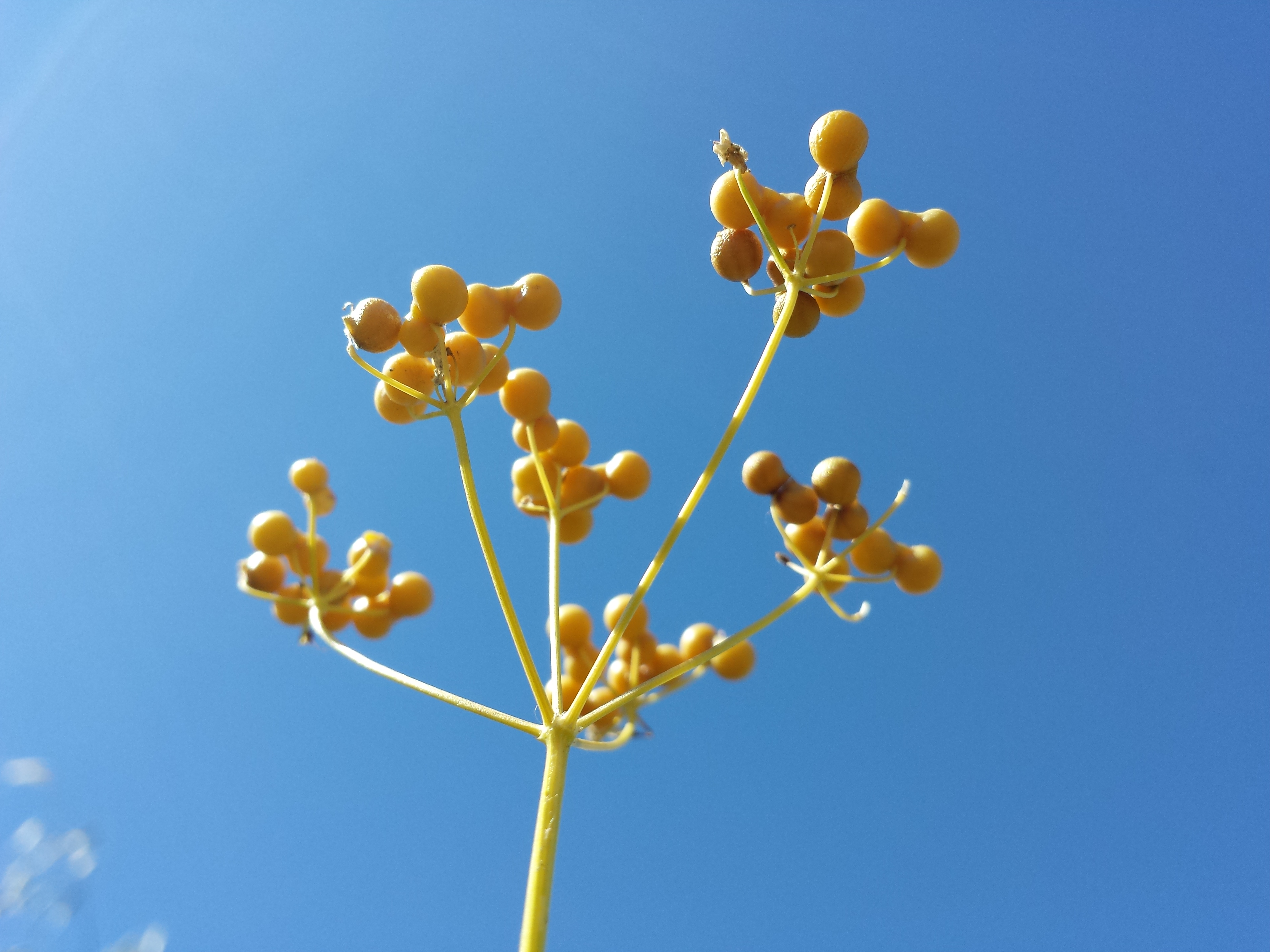 Infructescence Taxonym: Bifora radians ss Fischer et al. EfÖLS 2008 ISBN 978-3-85474-187-9 Location: Buschberg, Leiser Berge, district Korneuburg, Lower Austria - ca. 400 m a.s.l. Habitat: fallow land